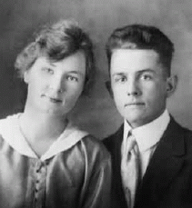 Newlyweds Spencer Kimball and Camilla Eyring